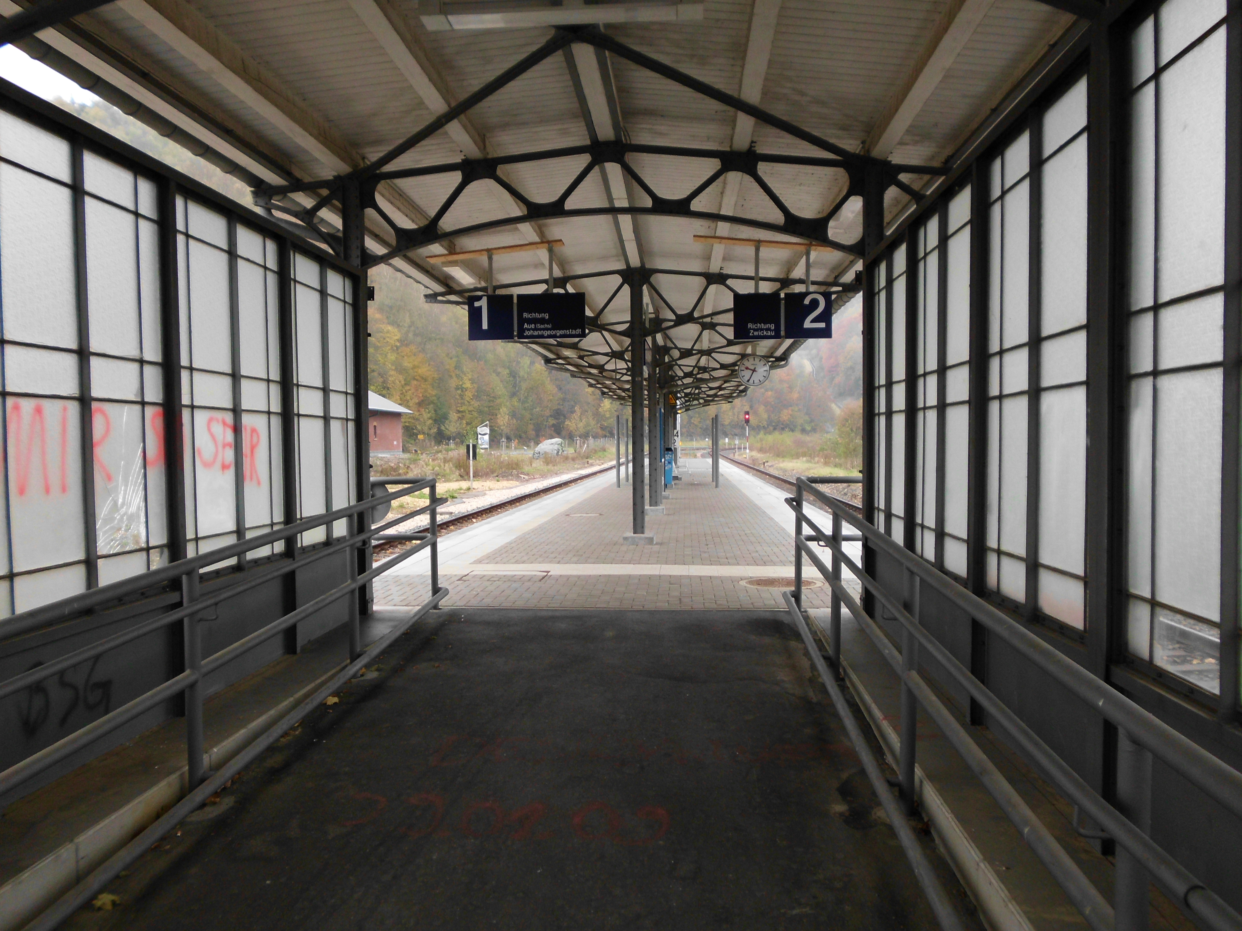 Bad Schlema station